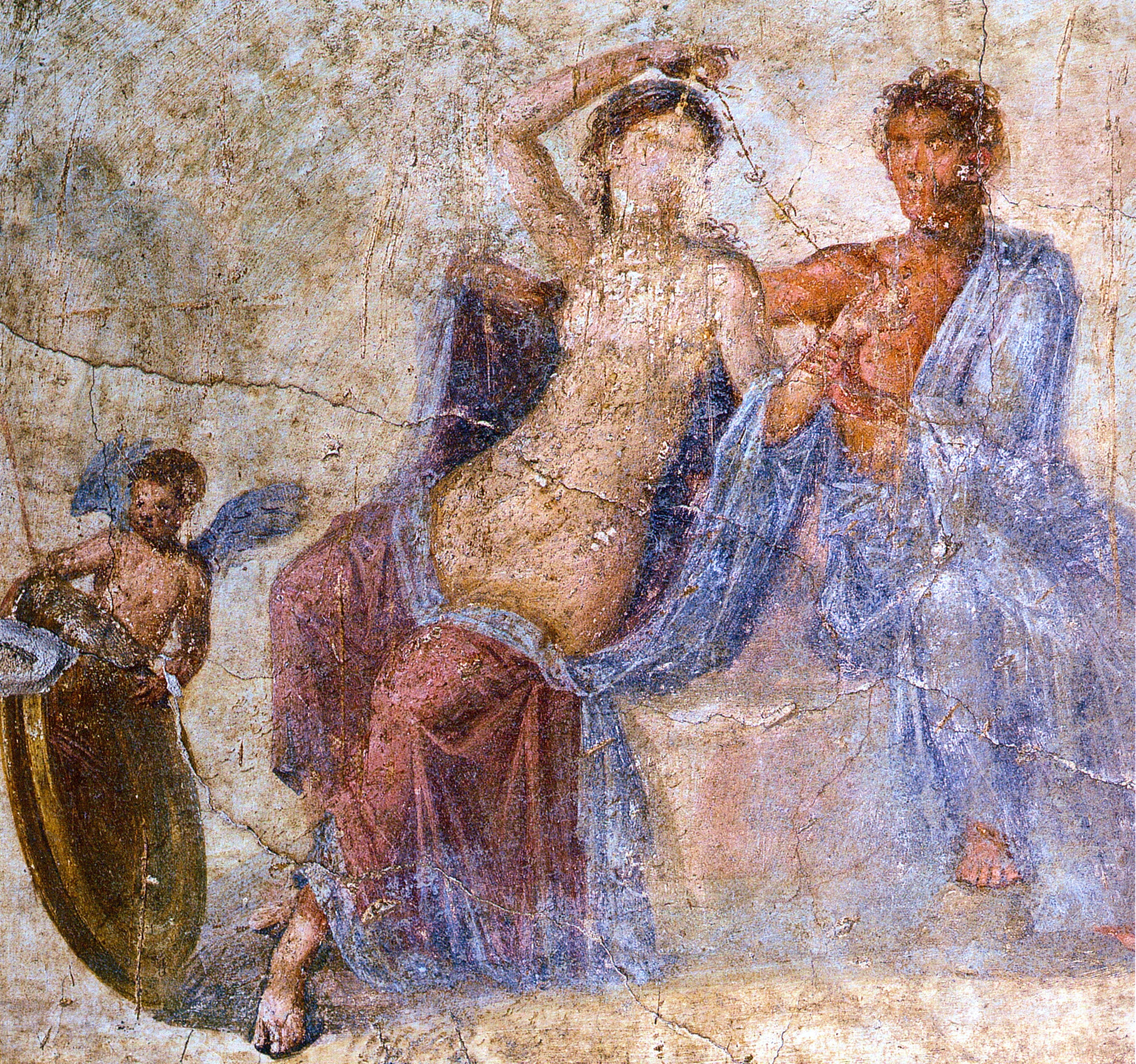 Mars and Venus. Roman fresco from Casa di Sallustio (VI 2, 4) in Pompeii.